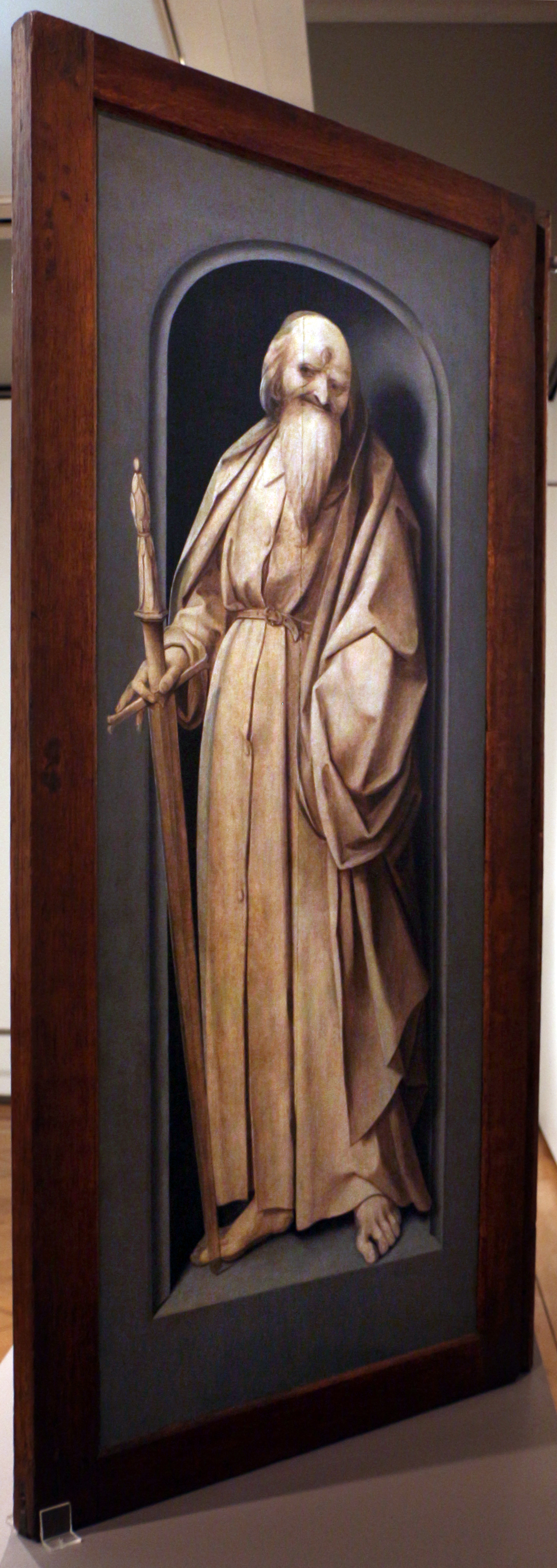 Flemish paintings in the Museu Nacional de Arte Antiga